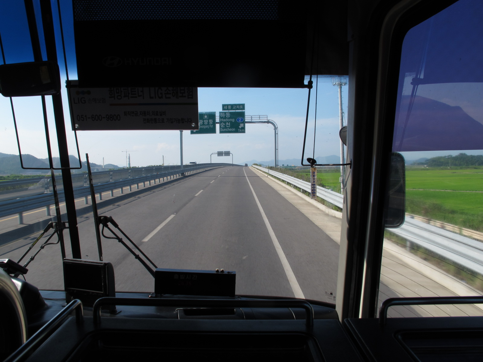 Sepung IC in W. Part of Gwangyang Harbor